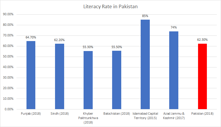 Literacy Rate in Pakistan